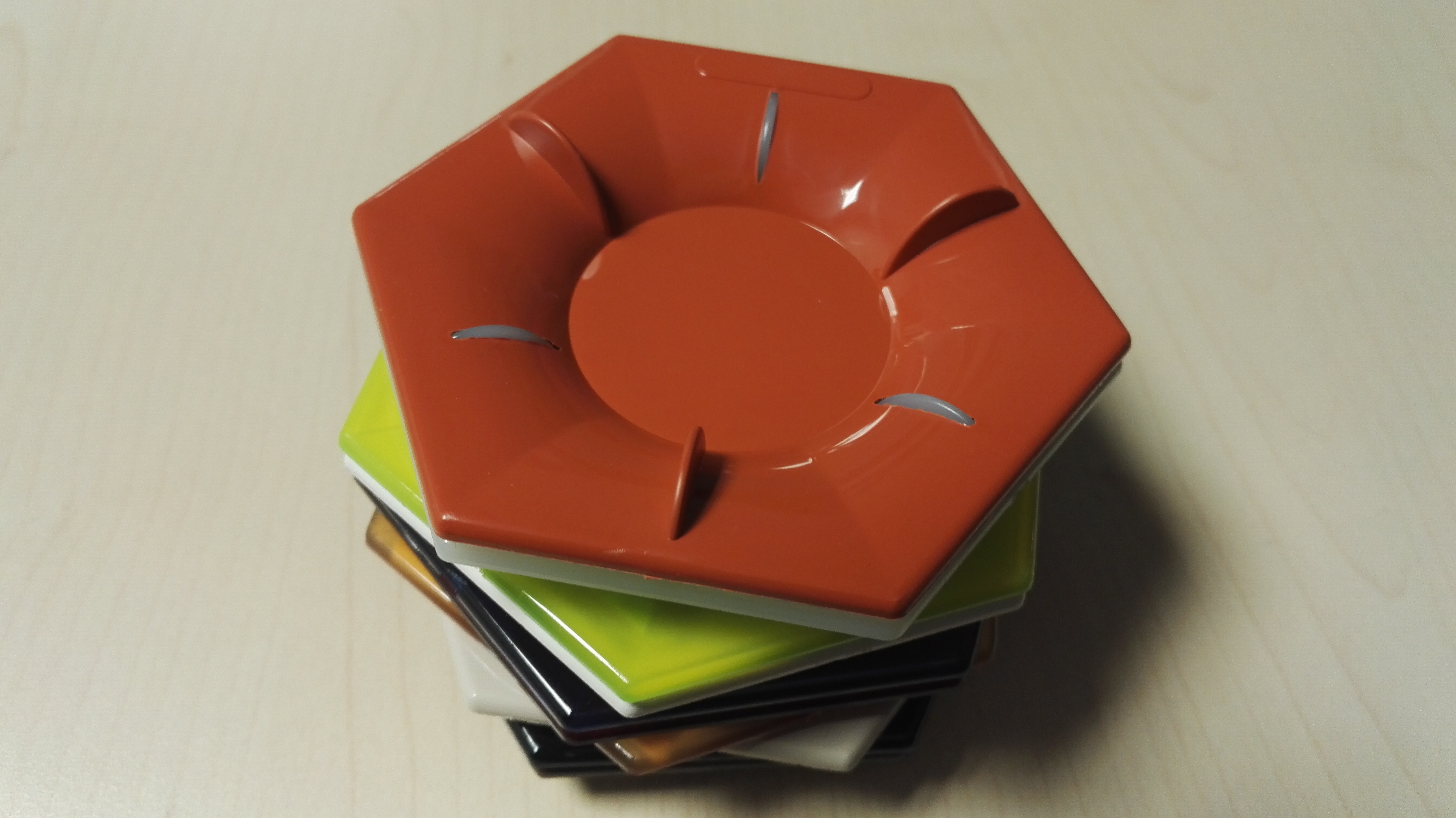 These are so called color chips, color samples made by plastic raw material manufacturers to showcase available colors of granules. Color chips make it possible to assess the physical apperance of the color after molding. They can be opaque, transparent, transluscent.